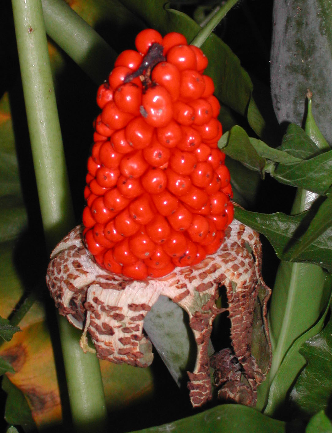 Photo taken in Hong Kong, Fruit of Alocasia ordora